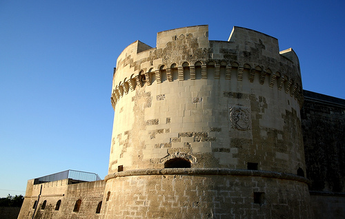 Cilindric tower of Acaya castle, Province of Lecce - Apulia, Italy, with XVI century cilindric tower.